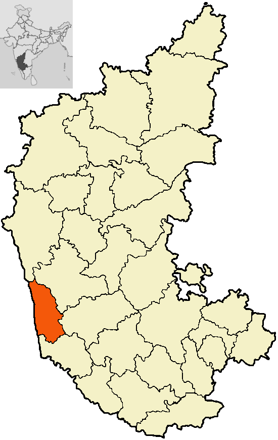 Locator map of Udupi district, Karnataka, India